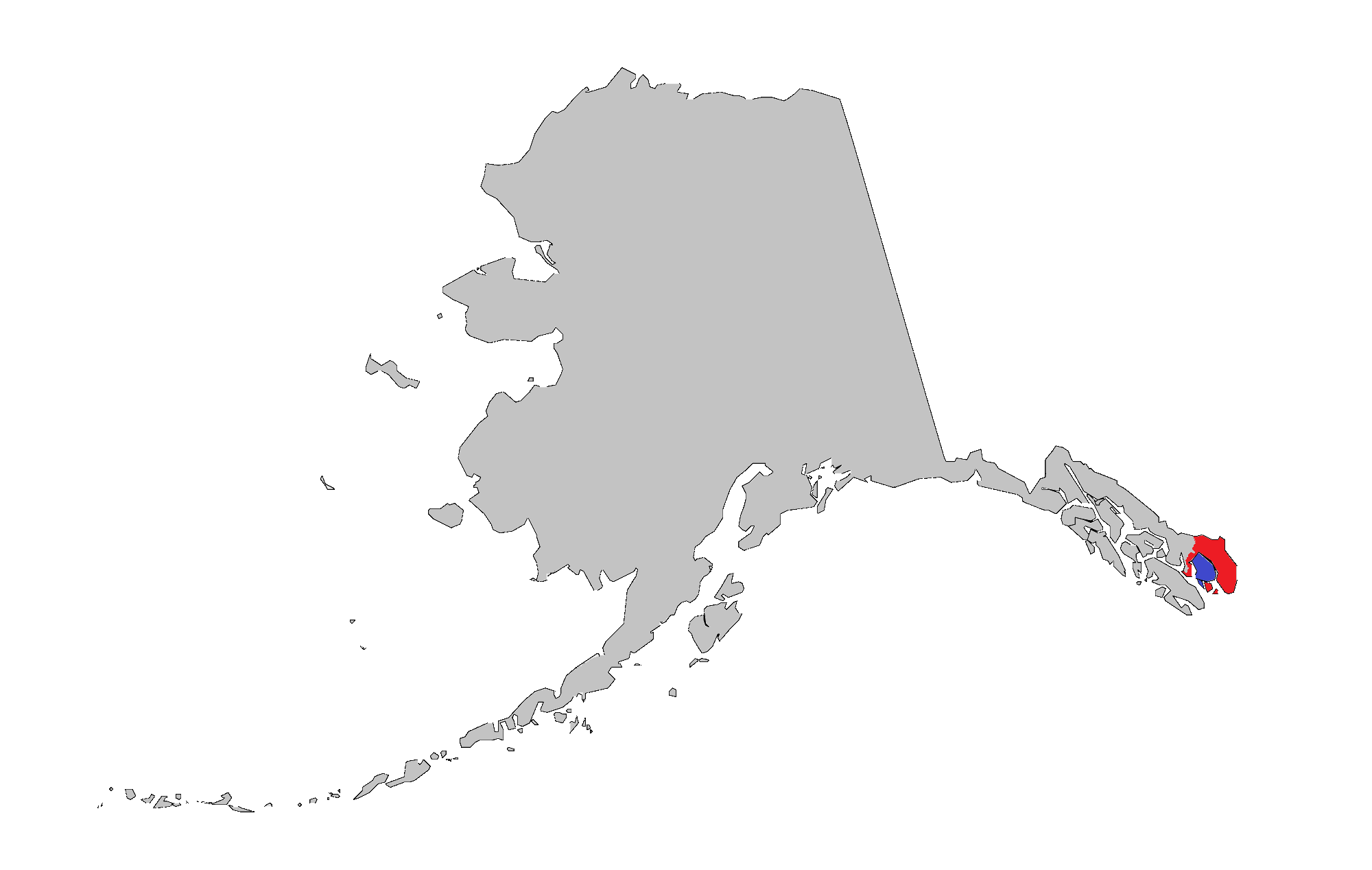 A map of the former Outer Ketchikan Census Division (in red+blue) in Alaska. Blue = Area that became Ketchikan Gateway Borough in 1963.